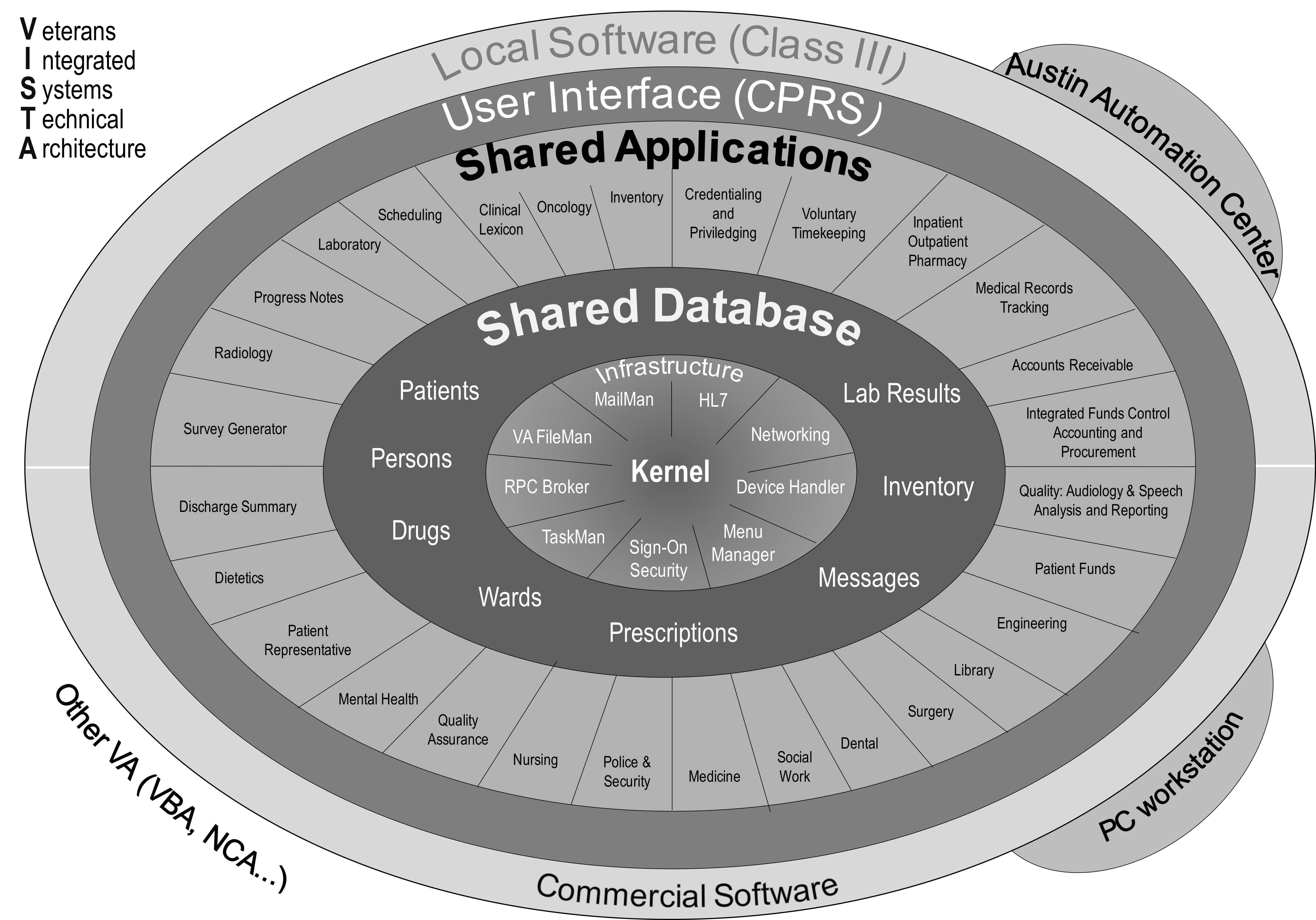 VA VISTA Architecture diagram "onion" showing single shared database connecting to shared applications, providing a single authoritative source of veteran data.